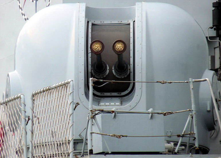 Italian DARDO CIWS turret aboard the Maestrale class frigate Scirocco (F573)